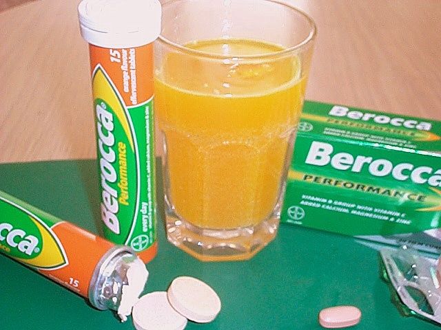 Berocca Performance varieties: effervescent form and tablet form, Australian Packaging. Taken by Michael Gardner June 2007.